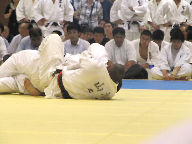 nanateijudo